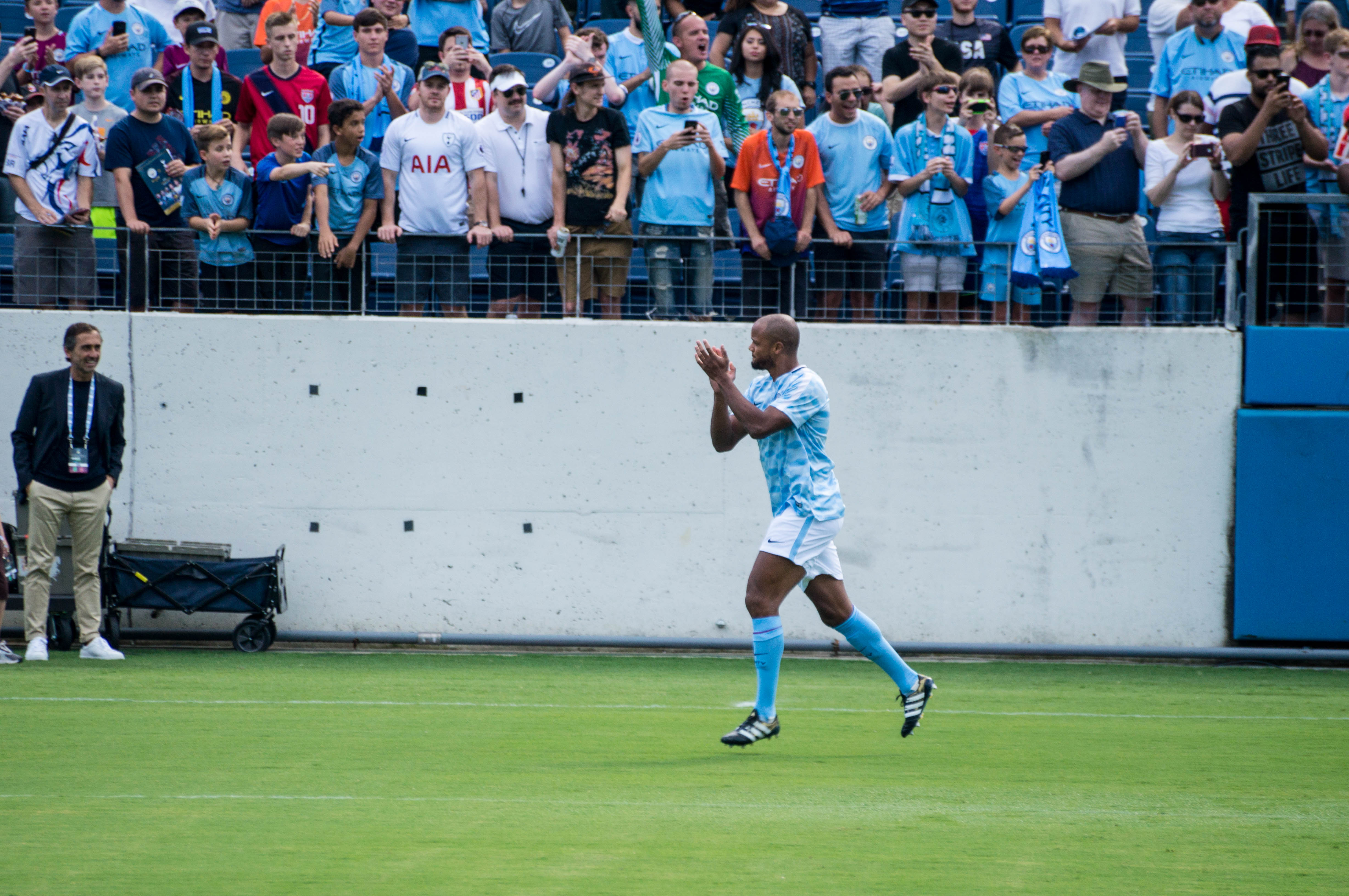 Manchester City vs Tottenham Hotspur at Nissan Stadium in Nashville, TN